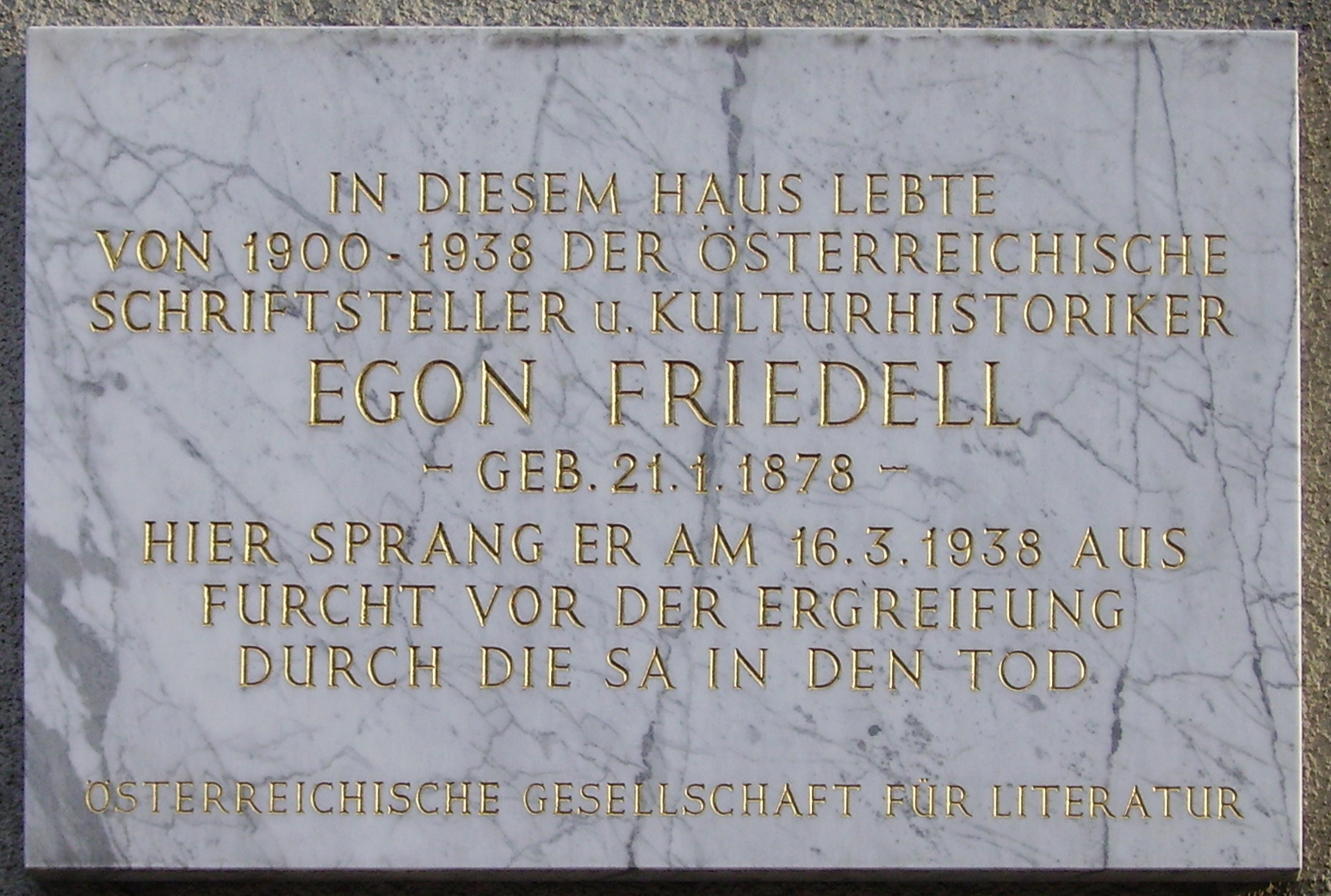 Egon Friedell memorial plaque at his last residence, Vienna Gentzgasse 7